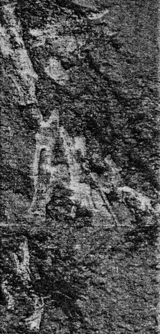 Possible skull bones of the Podokesaurus holyokensis holotype.